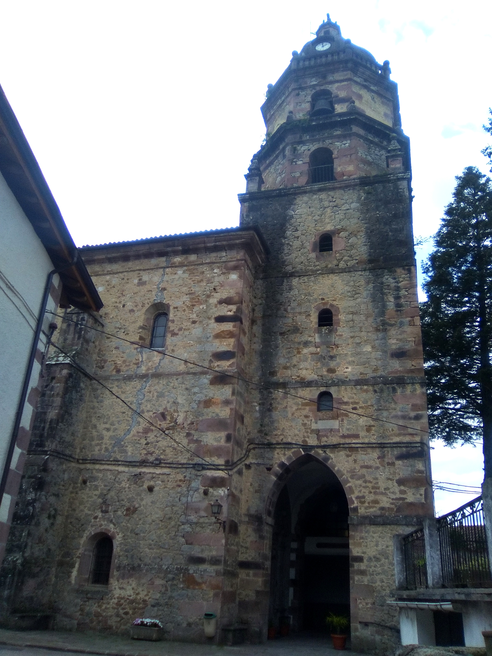 San Salbador church, Irurita. Baztan, Navarre, Basque Country